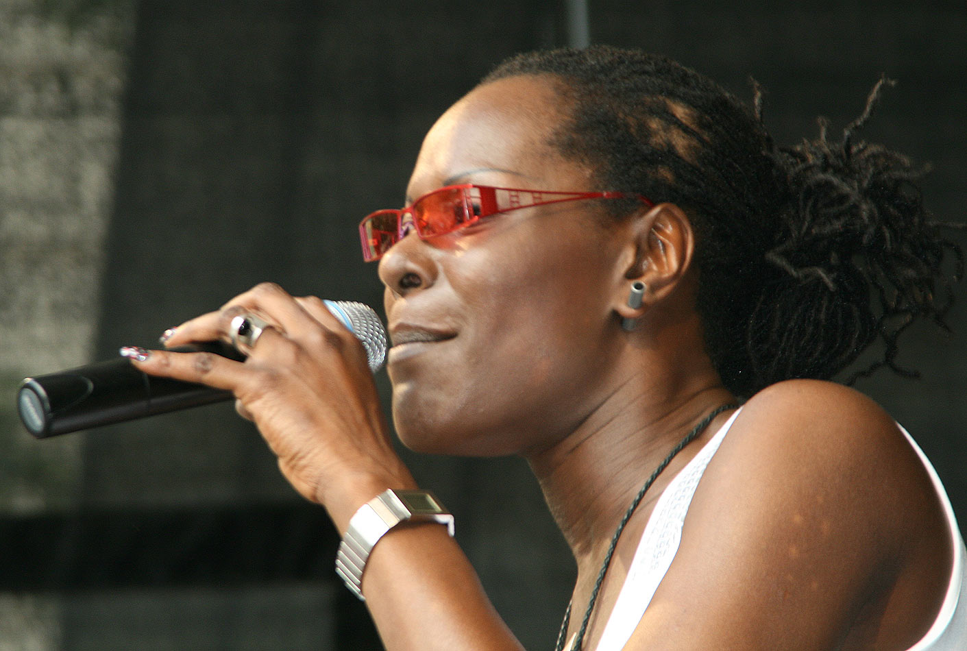 Singer Dorretta Carter at the Vienna Jazz Festival 2007 (Museumsquartier, Vienna, Austria)